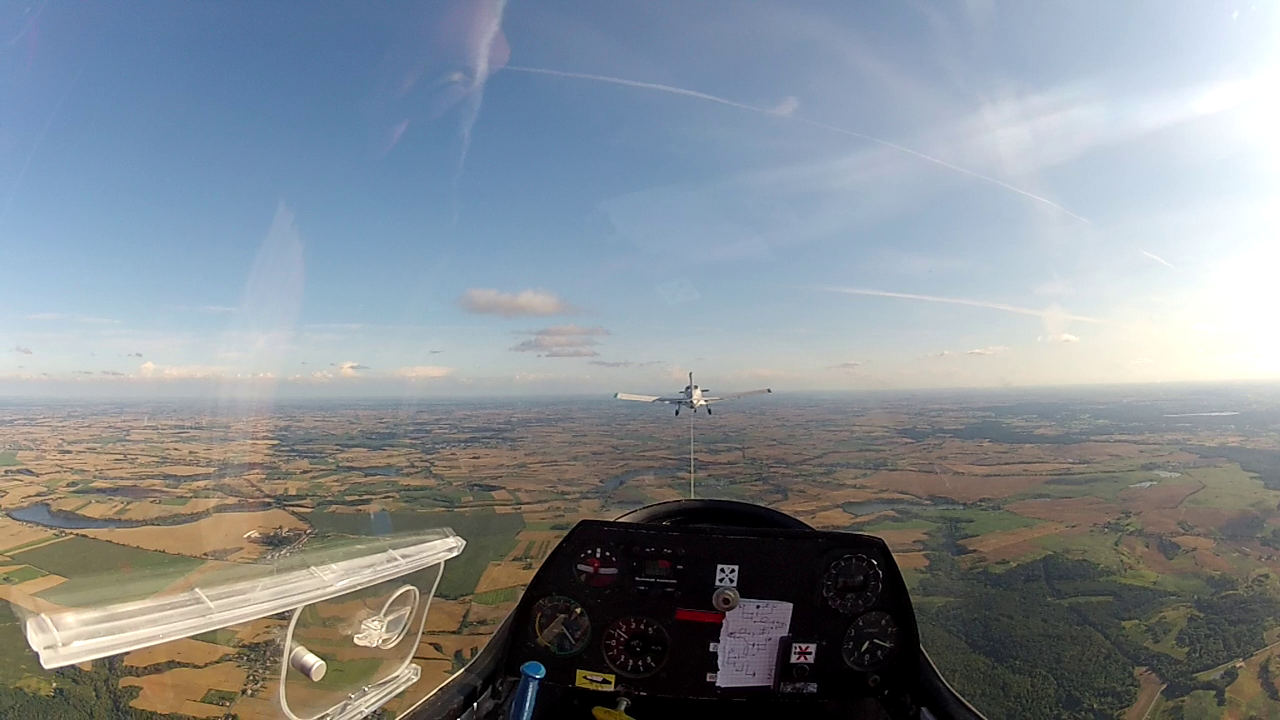 Hall SZD-50 Puchacz by plane view from the cockpit glider